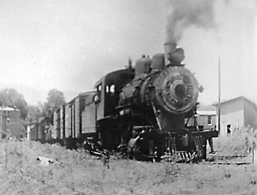 Engine of the Danville and Western Railway, also known as the 'Dick and Willie' or the "Delay and Wait,' which ran from Danville, Virginia, to Stuart, Virginia. The railway began operation in 1891. The railroad later merged into the Southern Railway.